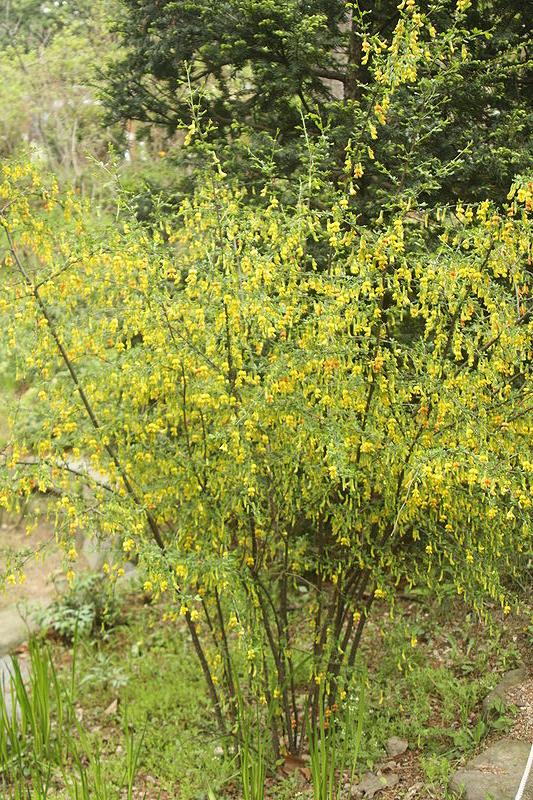 Caragana sinica in Seoul, Korea